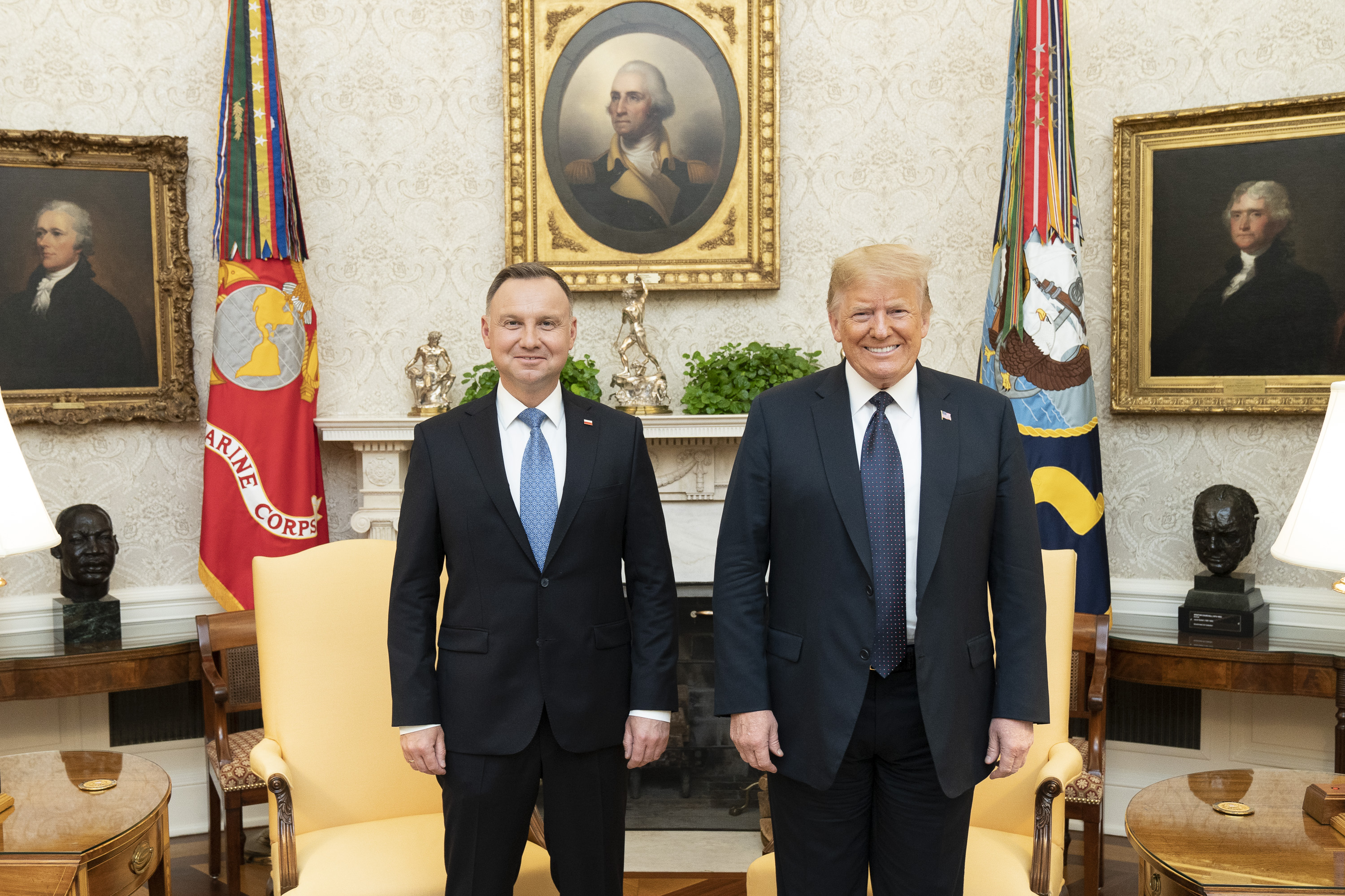 President Donald J. Trump participates in a bilateral meeting with Polish President Andrzej Duda Wednesday, June 24, 2020, in the Oval Office of the White House. (Official White House Photo by Shealah Craighead)